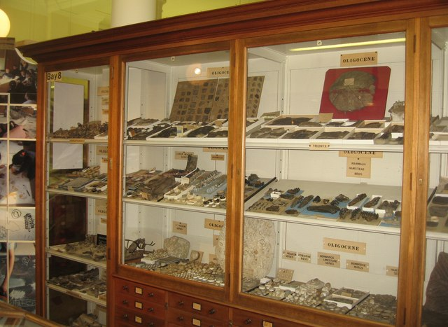 The Oligocene period Inside the Sedgwick museum.